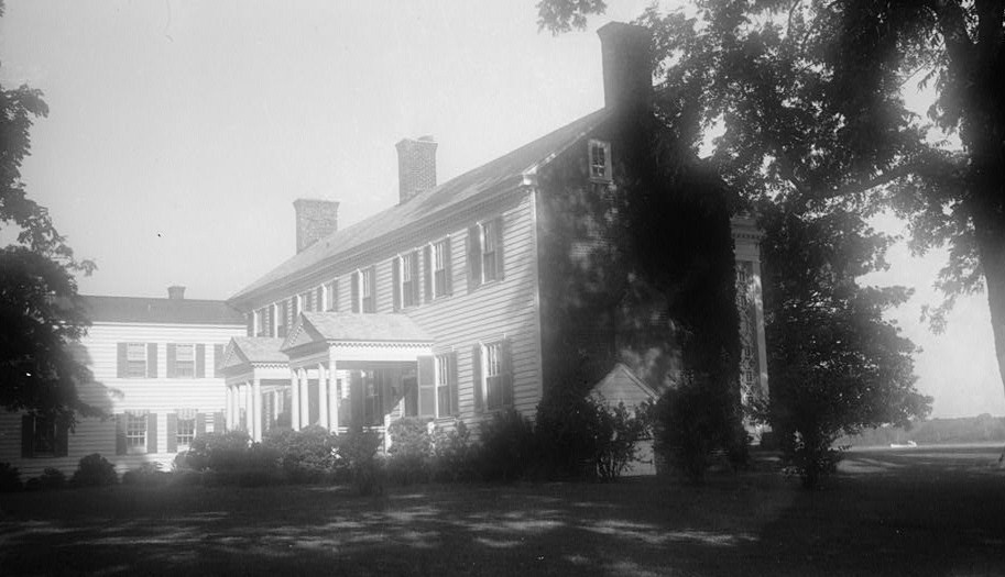 Vaucluse, State Route 619, Bridgetown vicinity (Northampton County, Virginia) cropped HABS VA,66-____,2-1 This file comes from the Historic American Buildings Survey (HABS), Historic American Engineering Record (HAER) or Historic American Landscapes Survey (HALS). These are programs of the National Park Service established for the purpose of documenting historic places. Records consist of measured drawings, archival photographs, and written reports. When reusing please credit: Library of Congress, Prints & Photographs Division, VA-437 This tag does not indicate the copyright status of the attached work. A normal copyright tag is still required. See Commons:Licensing. This work is in the public domain in the United States because it is a work prepared by an officer or employee of the United States Government as part of that person’s official duties under the terms of Title 17, Chapter 1, Section 105 of the US Code. Note: This only applies to original works of the Federal Government and not to the work of any individual U.S. state, territory, commonwealth, county, municipality, or any other subdivision. This template also does not apply to postage stamp designs published by the United States Postal Service since 1978. (See § 313.6(C)(1) of Compendium of U.S. Copyright Office Practices). It also does not apply to certain US coins; see The US Mint Terms of Use. This file has been identified as being free of known restrictions under copyright law, including all related and neighboring rights.